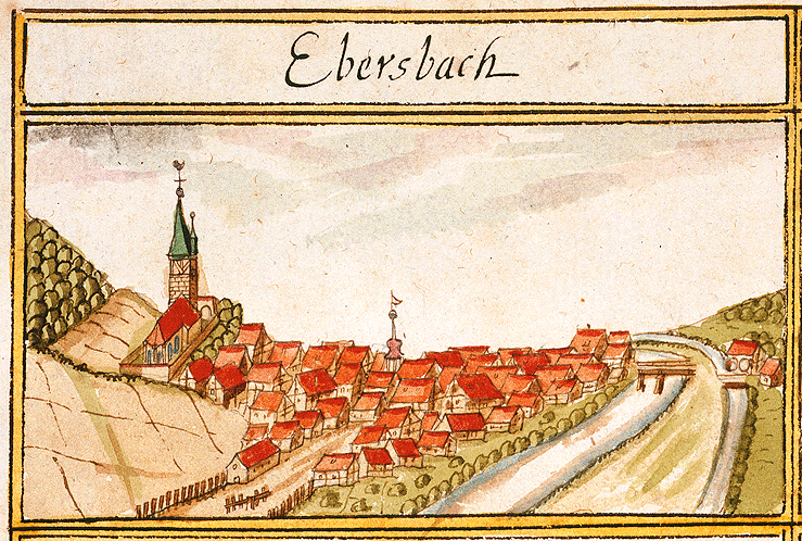 View of Ebersbach an der Fils from the forest register books created by Andreas Kieser